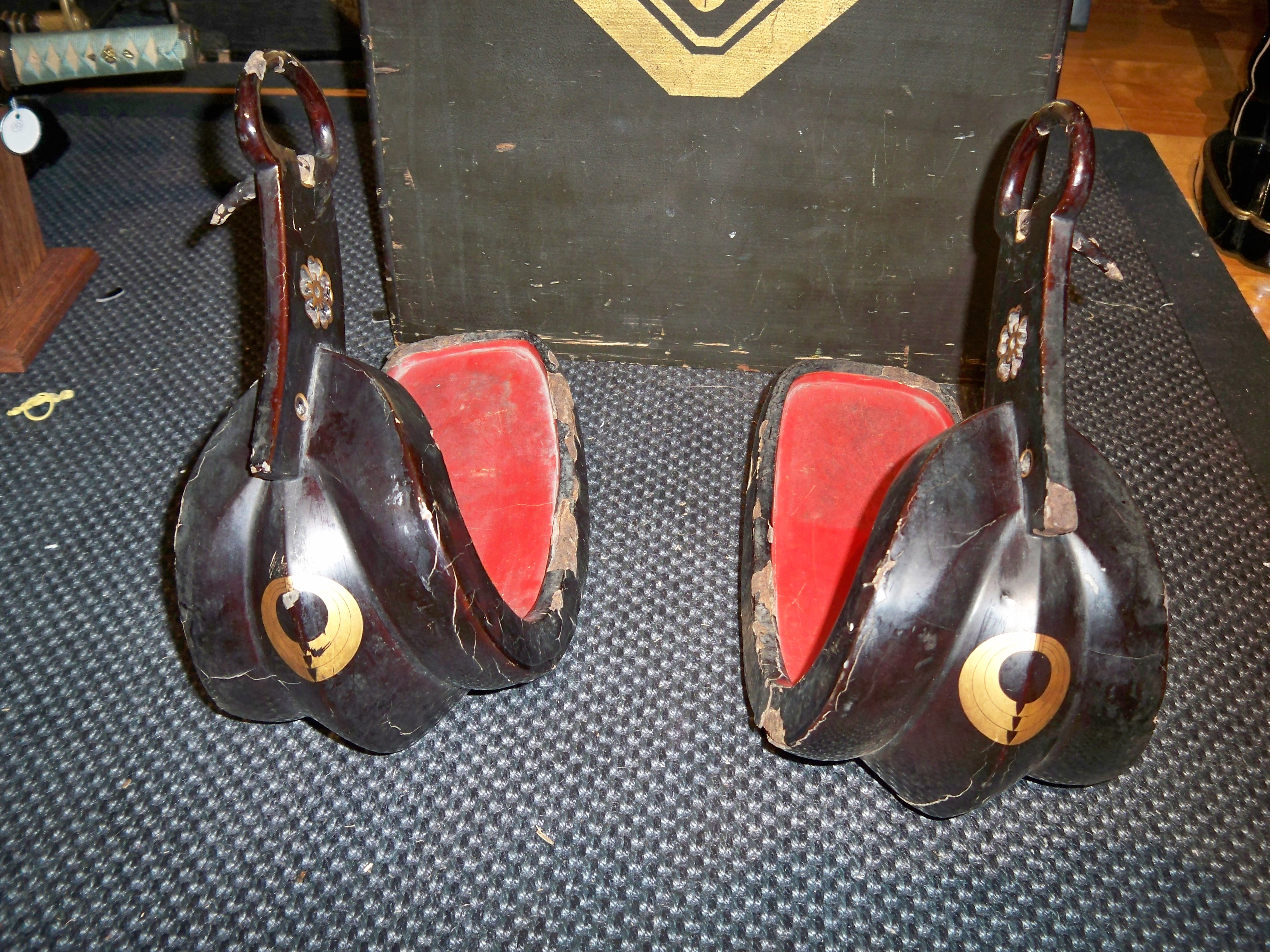 Antique Japanese (samurai) abumi. Stirrups with a family mark mon.